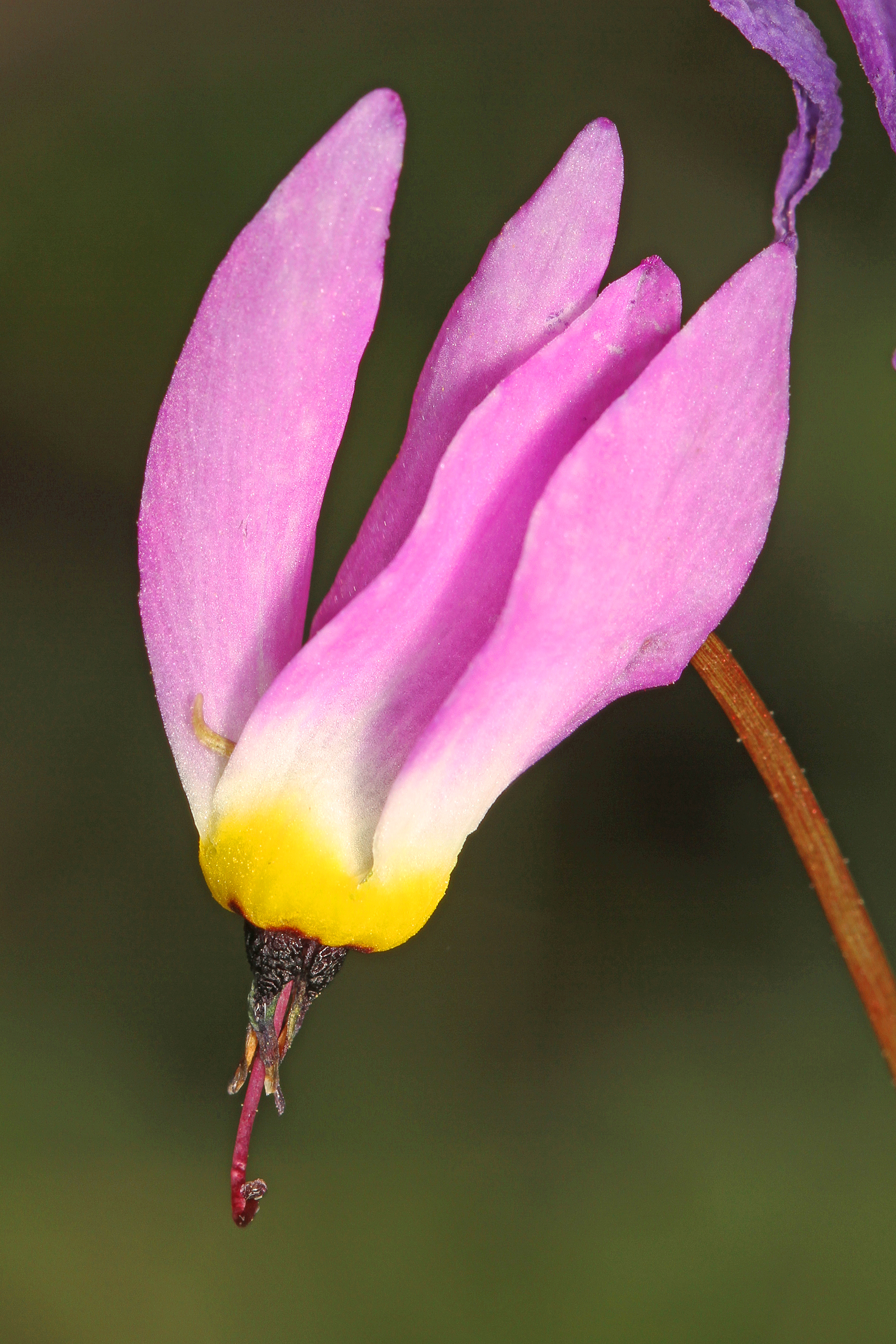 Shooting Star - Dodecatheon alpinum, Great Basin National Park, Baker, Nevada.